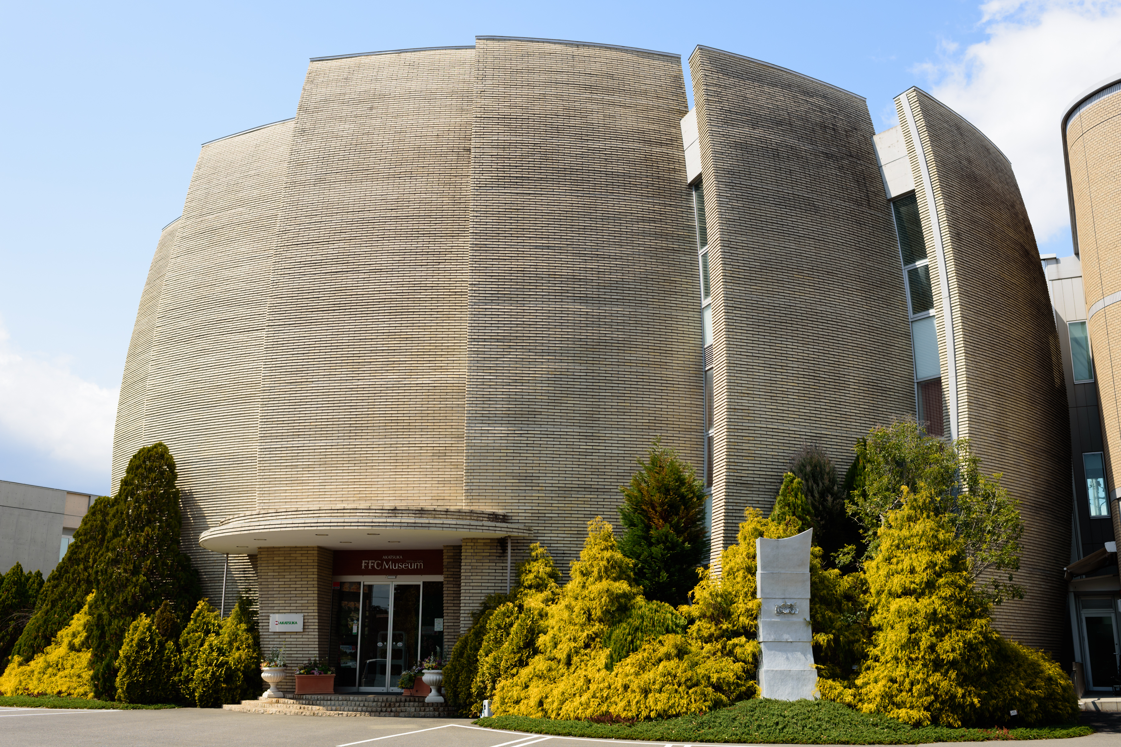 AKATSUKA FFC Museum, Takanoo-cho, Tsu, Mie